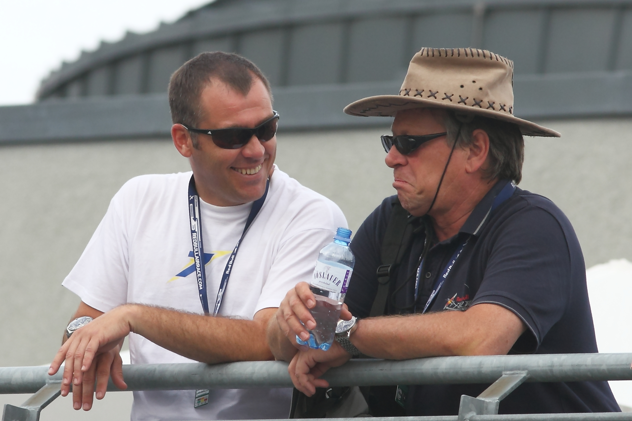 Adilson Kindlemann and Klaus Schroth at Red Bull Air Race Eurospeedway Lausitz